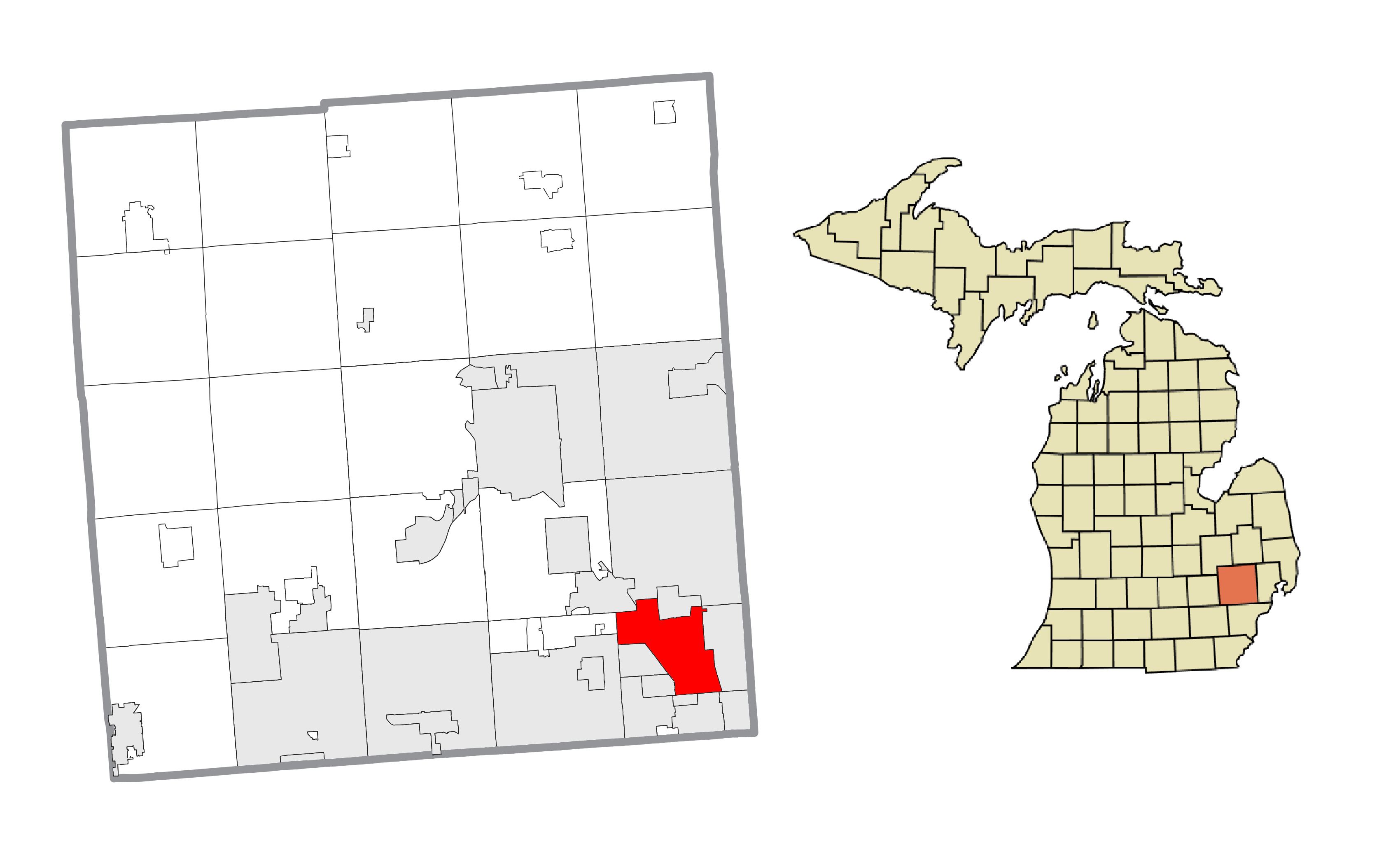 Royal Oak, MI